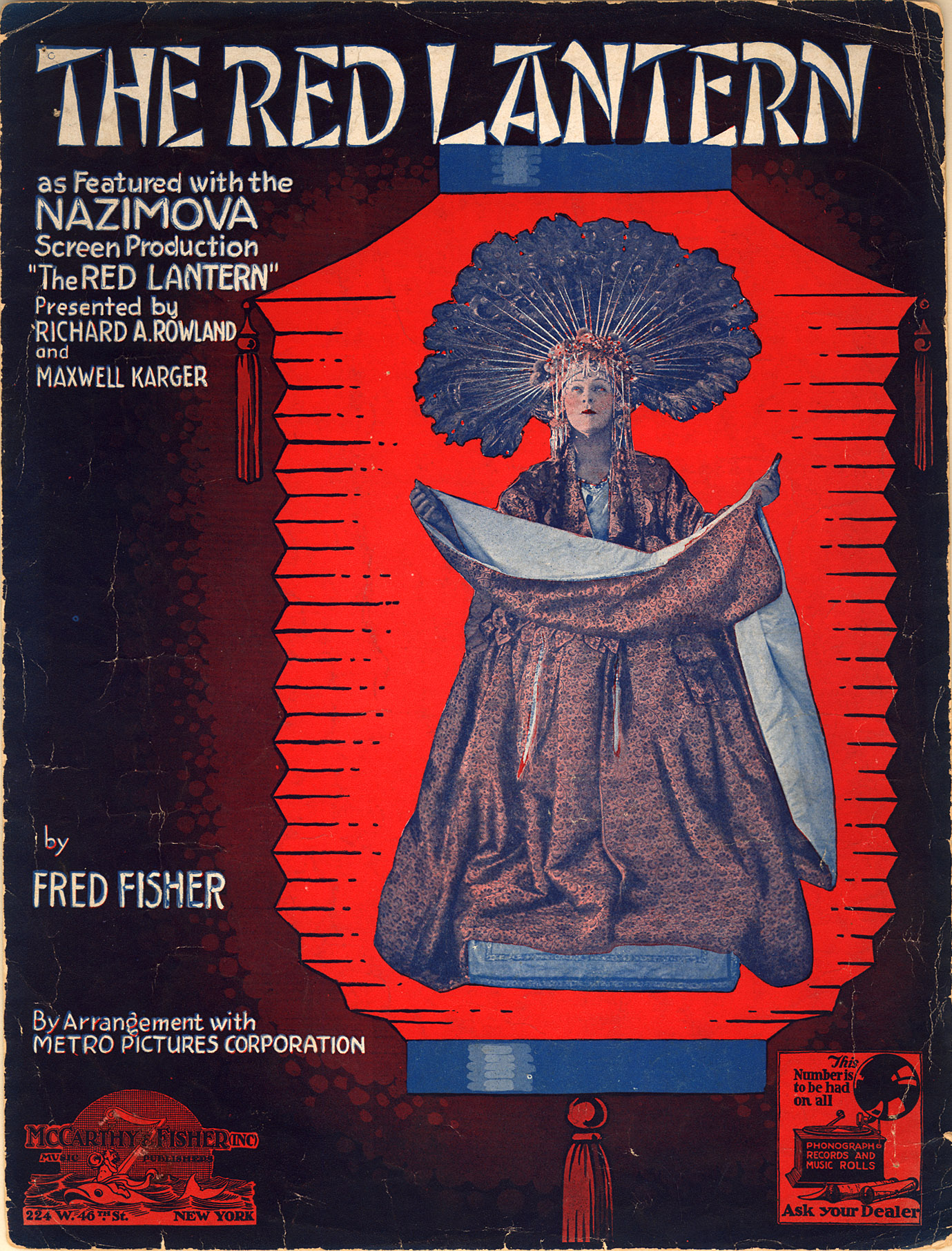 Sheet music cover for The Red Lantern (1919). Shows actress Alla Nazimova from the film.